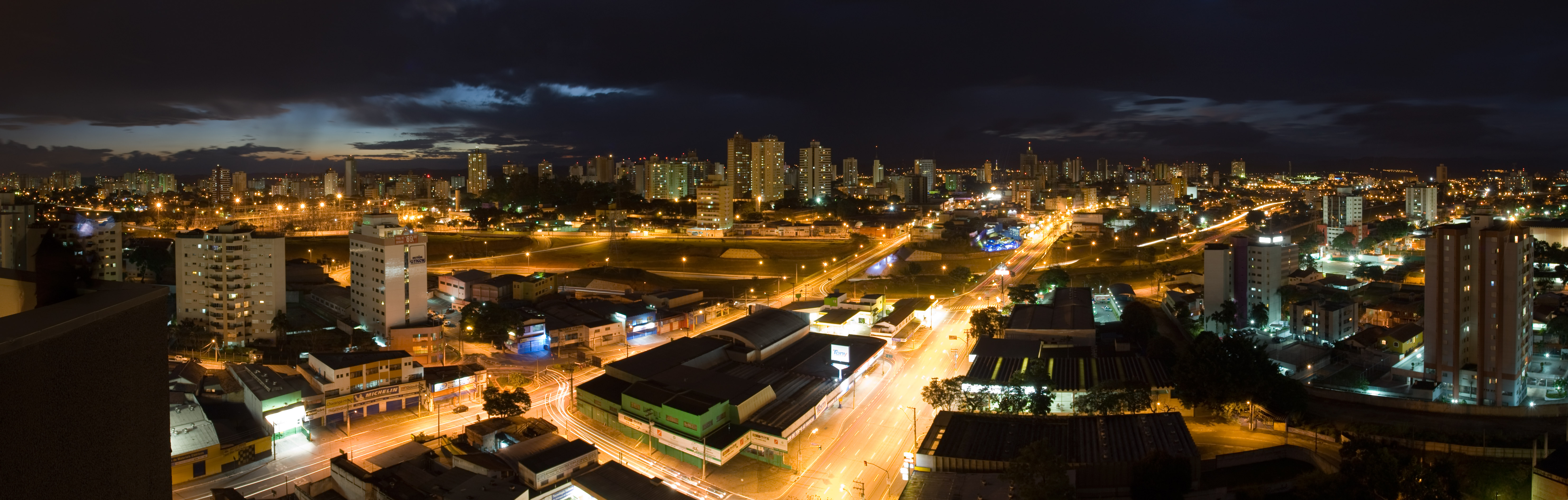 Panoramic view of São José dos Campos at nighttime.